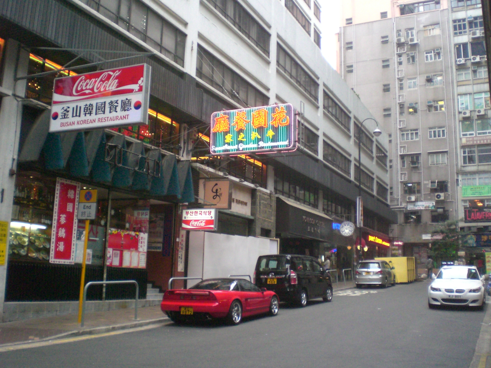 尖沙咀亞士厘道 花園餐廳, Sweetheart Garden Restaurant, Ashley Road, Tsim Sha Tsui, Hong Kong